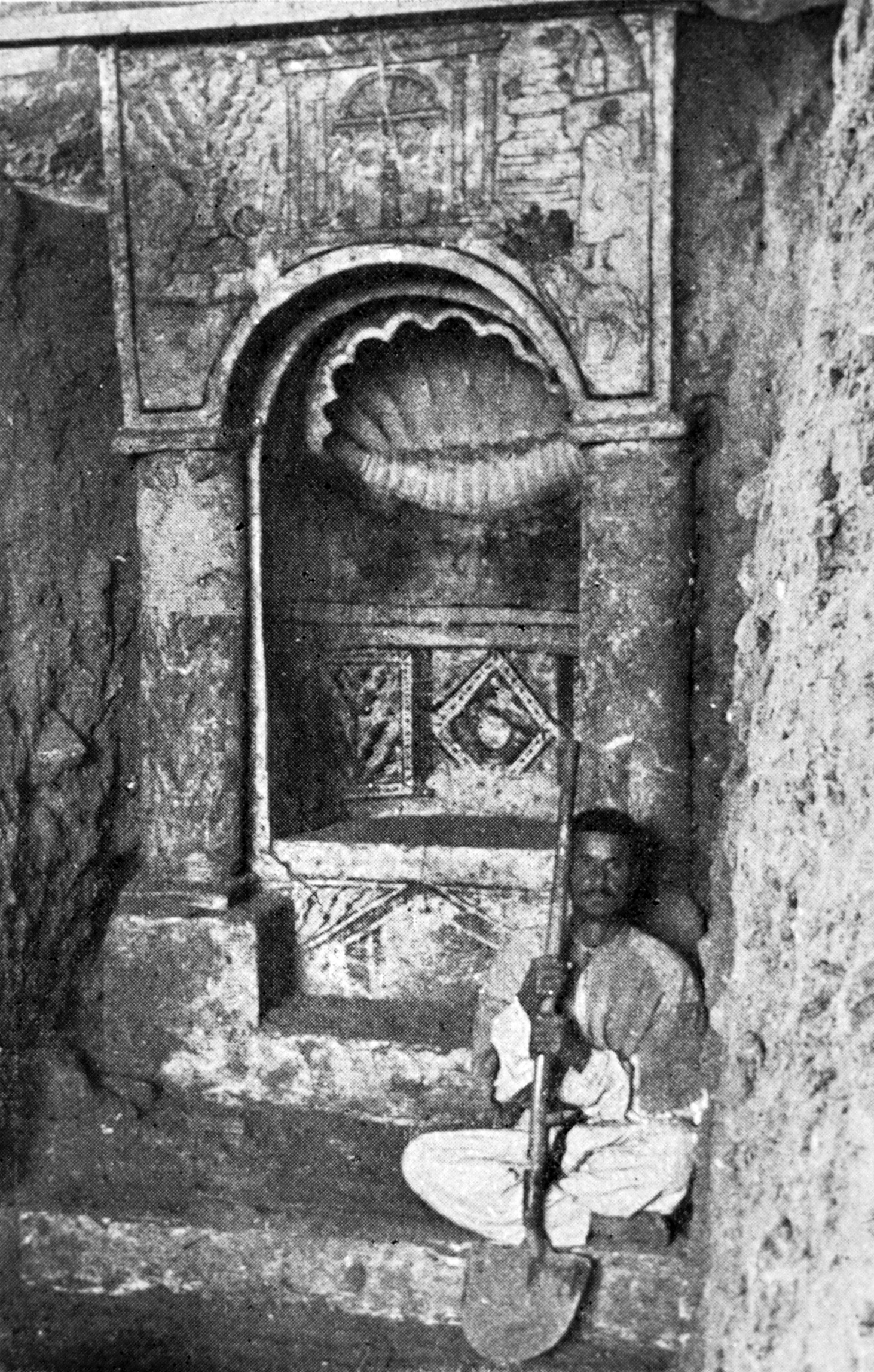 Excavation of the Torah niche in the Dura Europos synagogue in 1932-1933.